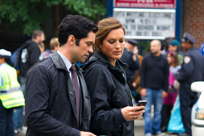 Mariska Hargitay and Danny Pino on the set of Law and Order: SVU, "Missing Pieces" Episode #13.5